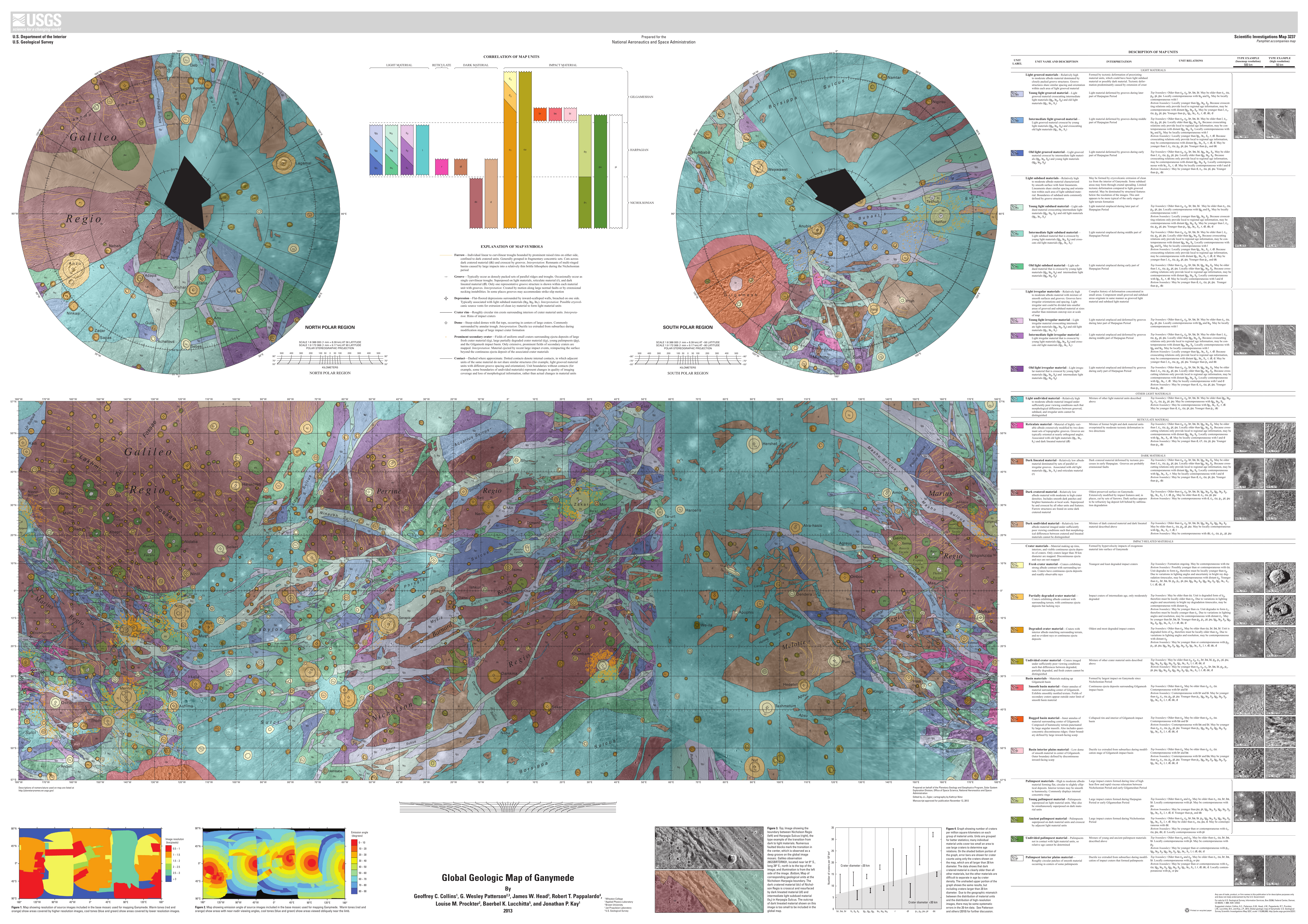 Global Geologic Map of Ganymede By Geoffrey C. Collins, G. Wesley Patterson, James W. Head, Robert T. Pappalardo, Louise M. Prockter, Baerbel K. Lucchitta, and Jonathan P. Kay Thumbnail of and link to report PDF (22.5 MB) Summary Ganymede is the largest satellite of Jupiter, and its icy surface has been formed through a variety of impact cratering, tectonic, and possibly cryovolcanic processes. The history of Ganymede can be divided into three distinct phases: an early phase dominated by impact cratering and mixing of non-ice materials in the icy crust, a phase in the middle of its history marked by great tectonic upheaval, and a late quiescent phase characterized by a gradual drop in heat flow and further impact cratering. Images of Ganymede suitable for geologic mapping were collected during the flybys of Voyager 1 and Voyager 2 (1979), as well as during the Galileo Mission in orbit around Jupiter (1995–2003). This map represents a synthesis of our understanding of Ganymede geology after the conclusion of the Galileo Mission. We summarize the properties of the imaging dataset used to construct the map, previously published maps of Ganymede, our own mapping rationale, and the geologic history of Ganymede. Additional details on these topics, along with detailed descriptions of the type localities for the material units, may be found in the companion paper to this map (Patterson and others, 2010). UPLOADER NOTE (Drbogdan (talk) 20:32, 14 February 2014 (UTC)): Converted the original PDF file to a PNG File (via GIMP v2.8.4 program) - and uploaded to Wikimedia Commons.